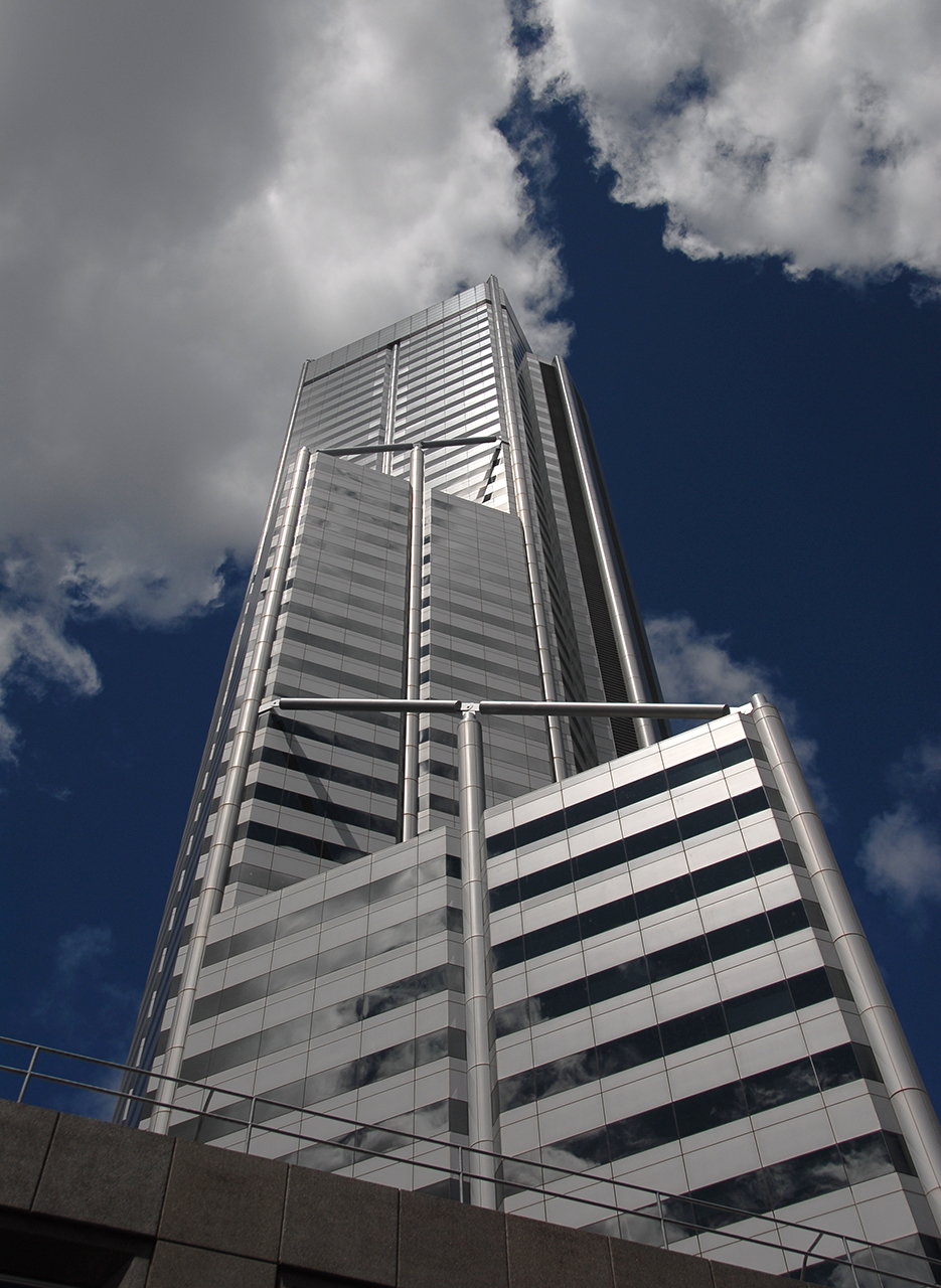 Park (skyscraper). Perth, W.A.